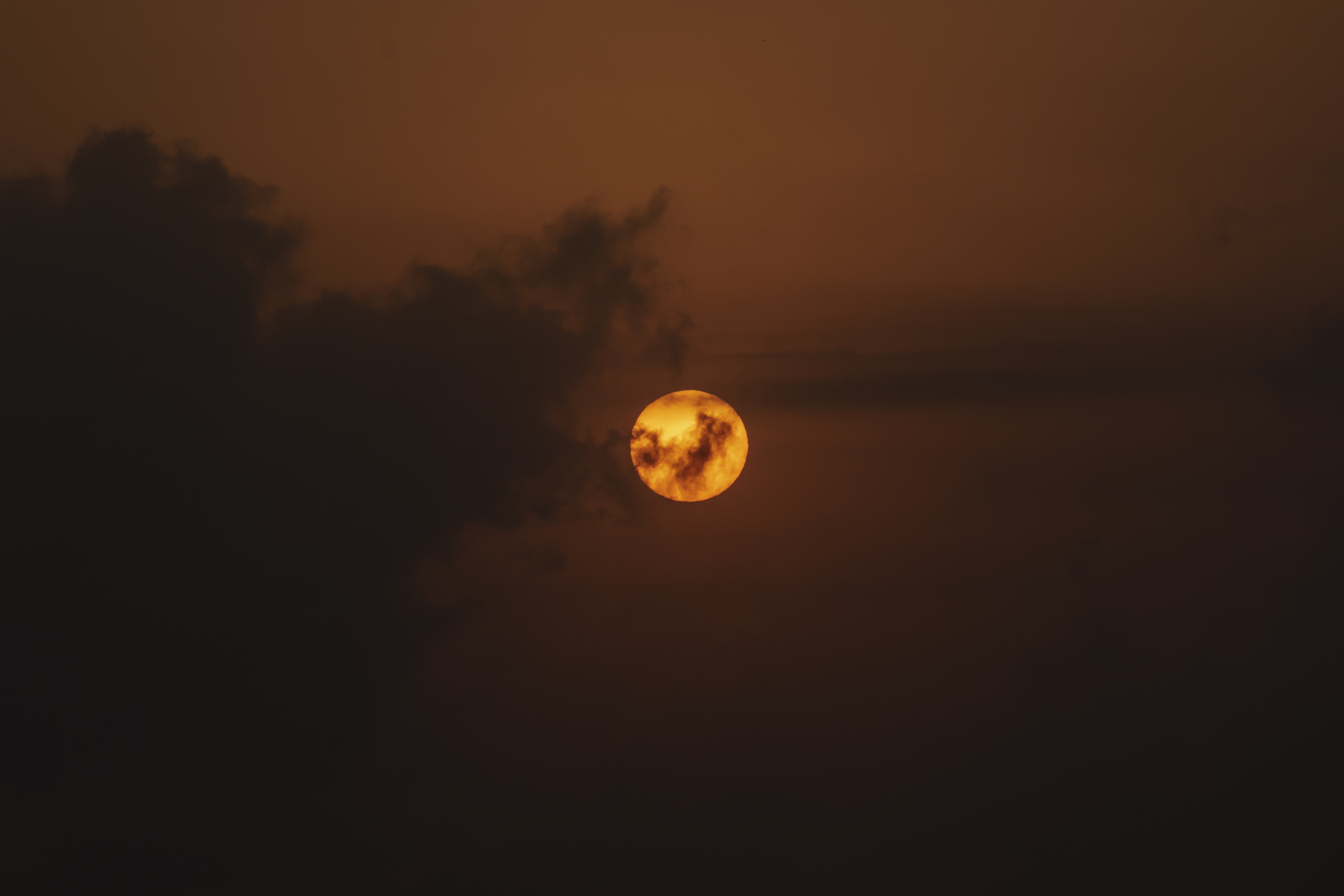 Sorkhrud is a city and capital of Sorkhrud District, in Mahmudabad County, Mazandaran Province, Iran. At the 2006 census, its population was 6,569, in 1,841 families.